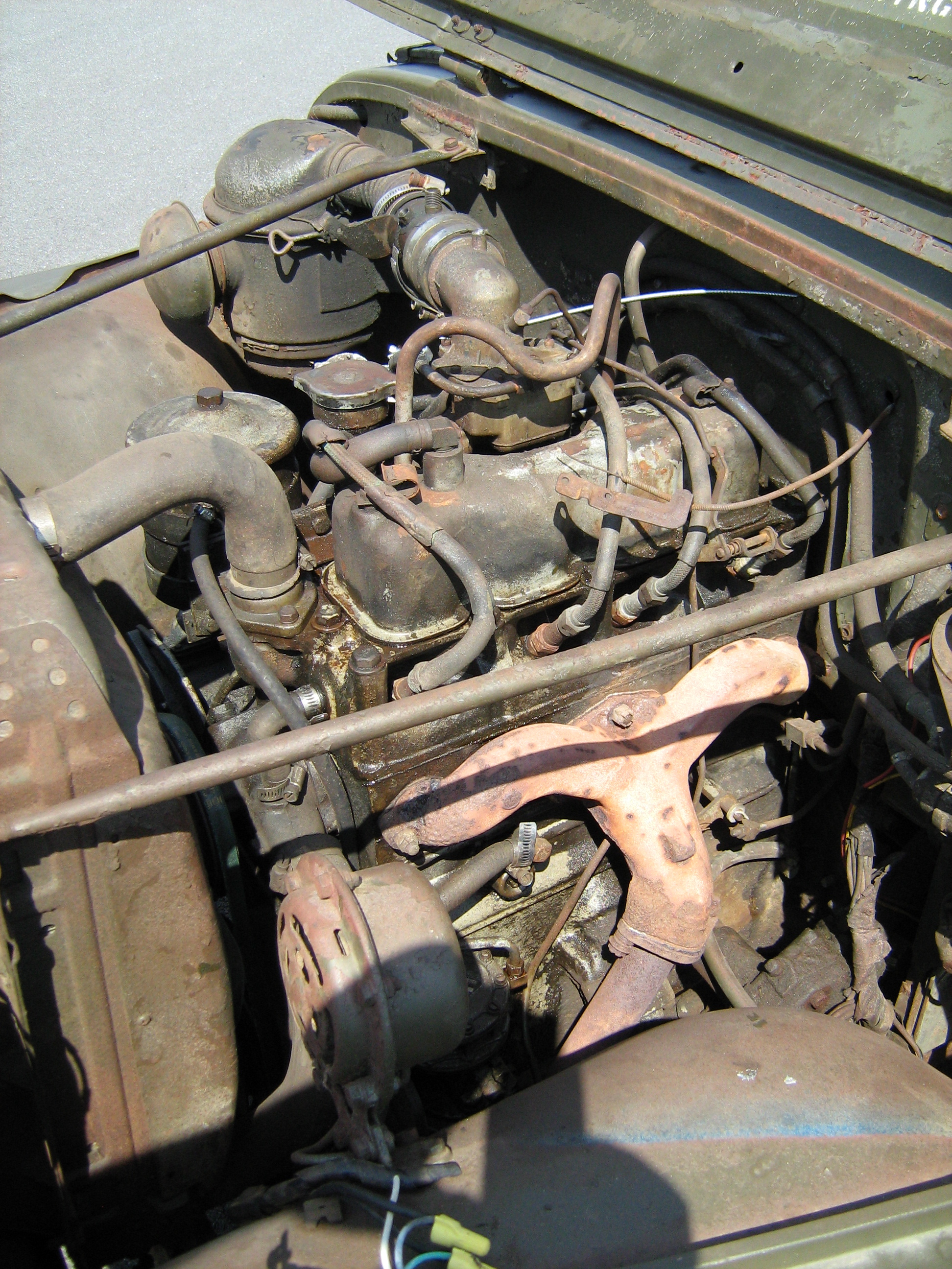 Engine compartment straight 4-cylinder, 134 CID (2.2 L) in a M170 Willys Ambulance Jeep as was used by the US Army. Capable of hauling 3 patients on litters. Produced from 1953 to 1963, a 1/4-ton, 4x4 variant of the M-38A1 Jeep. The body is 20-inches (508 mm) longer, has a stronger suspension, and the spare tire and jerry can are next to the passenger seat.